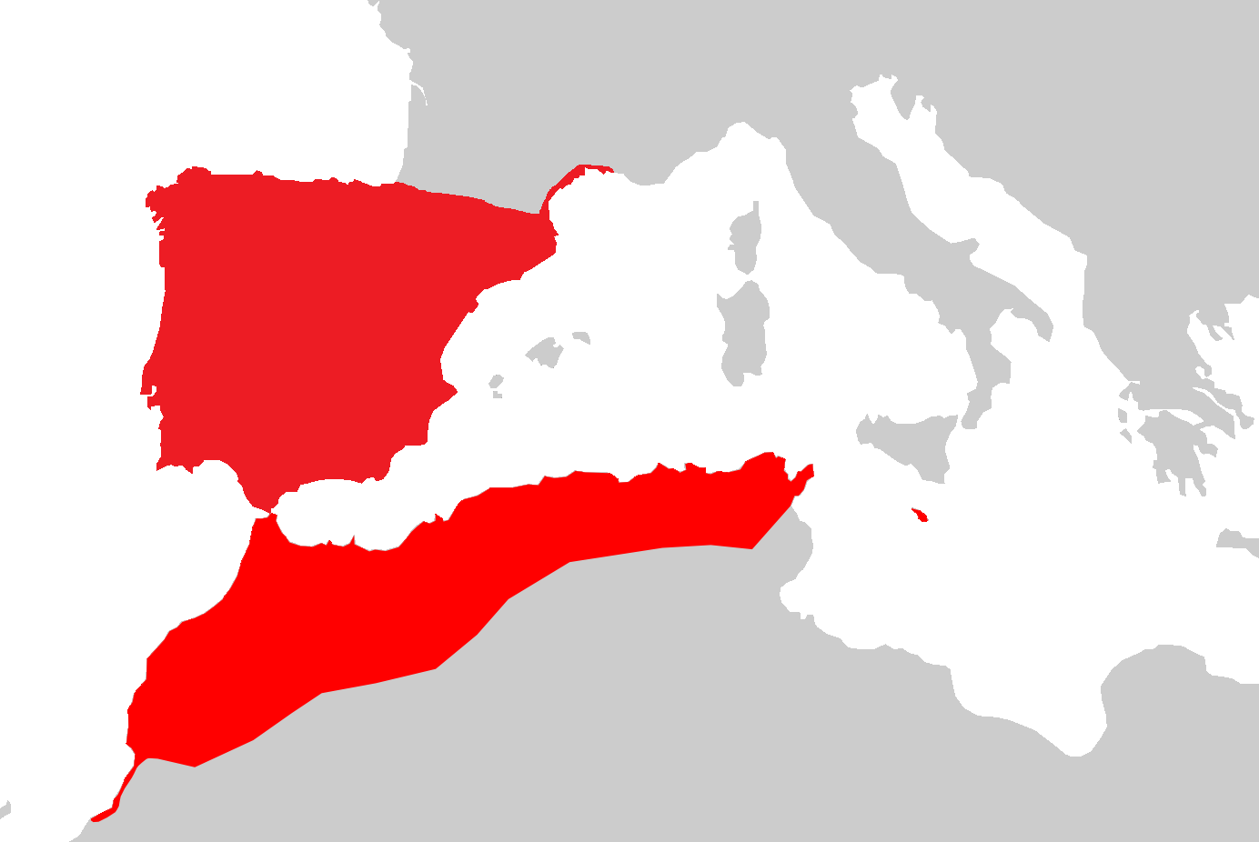 Psammodromus algirus range map.